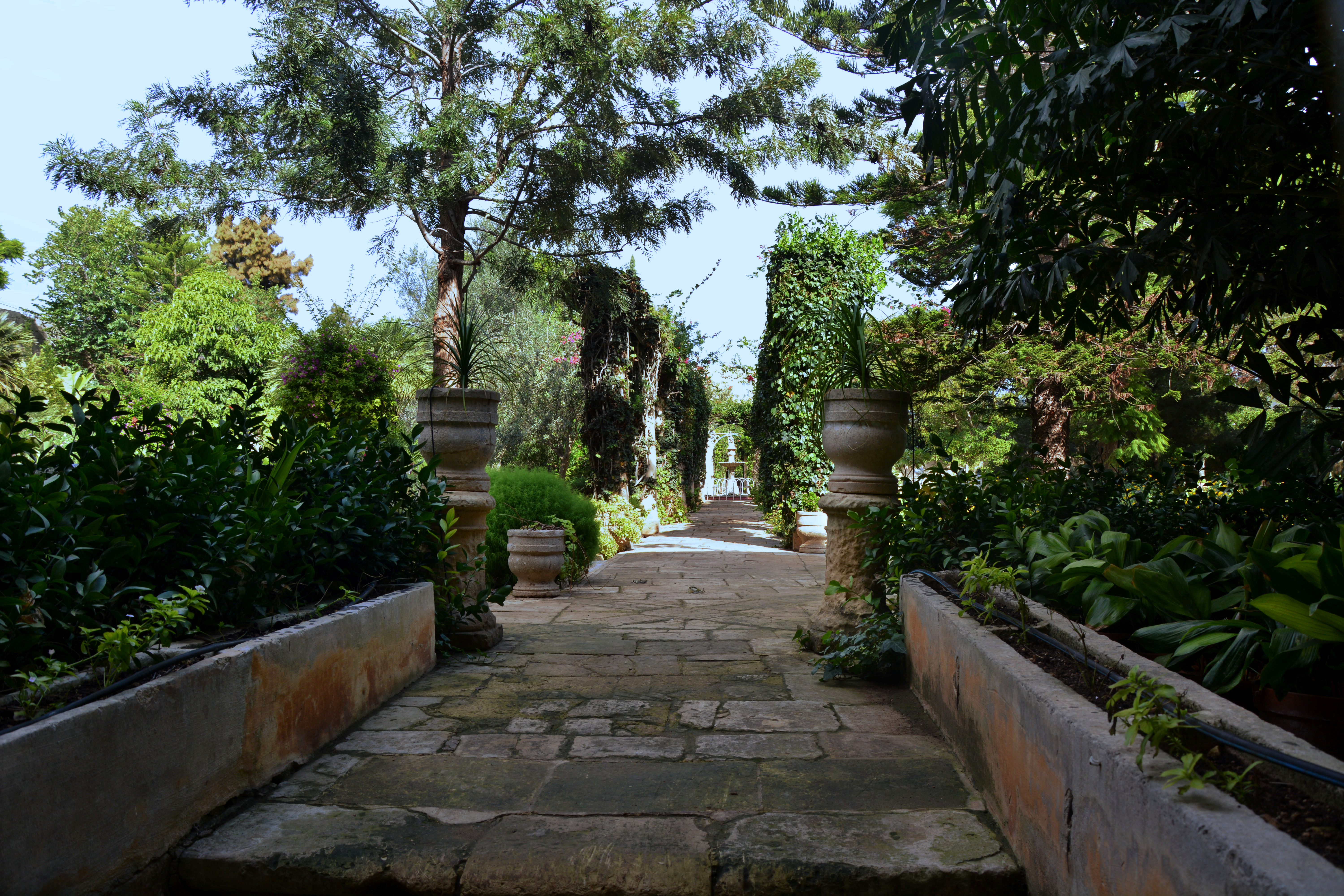 Private part of the palace's "San Anton Gardens" in Malta